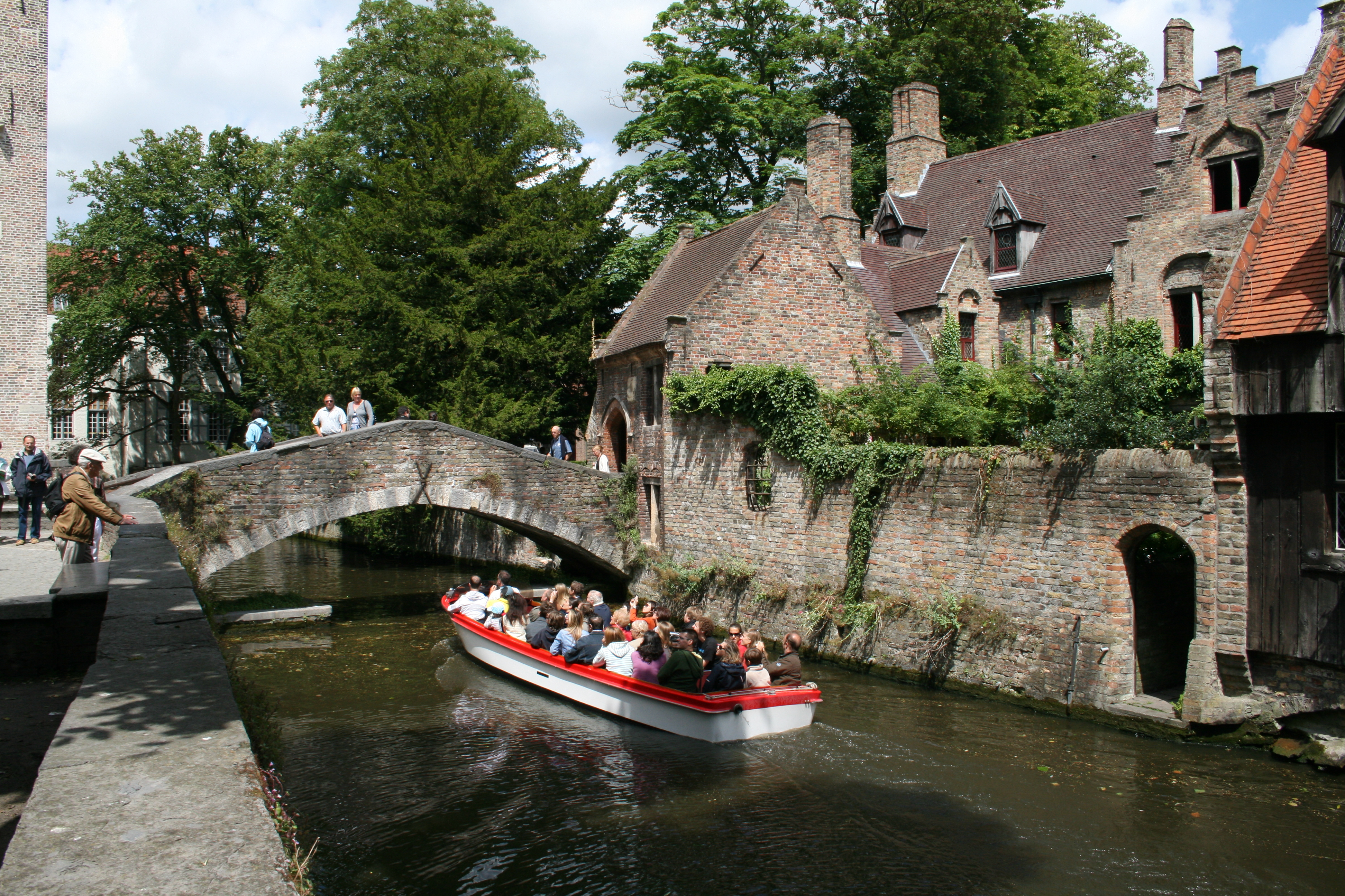 Bruges (Belgium), little bridge located between the Our Lady church and the Gruuthuuse park.